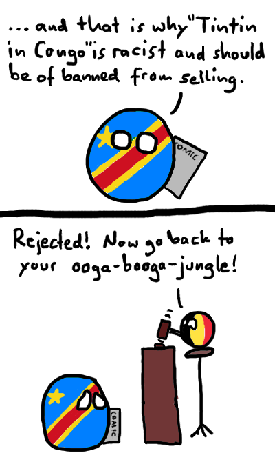 Polandball comic on the news that a Belgian court rules that 1920s comic strip Tintin in the Congo is not racist. (news link)